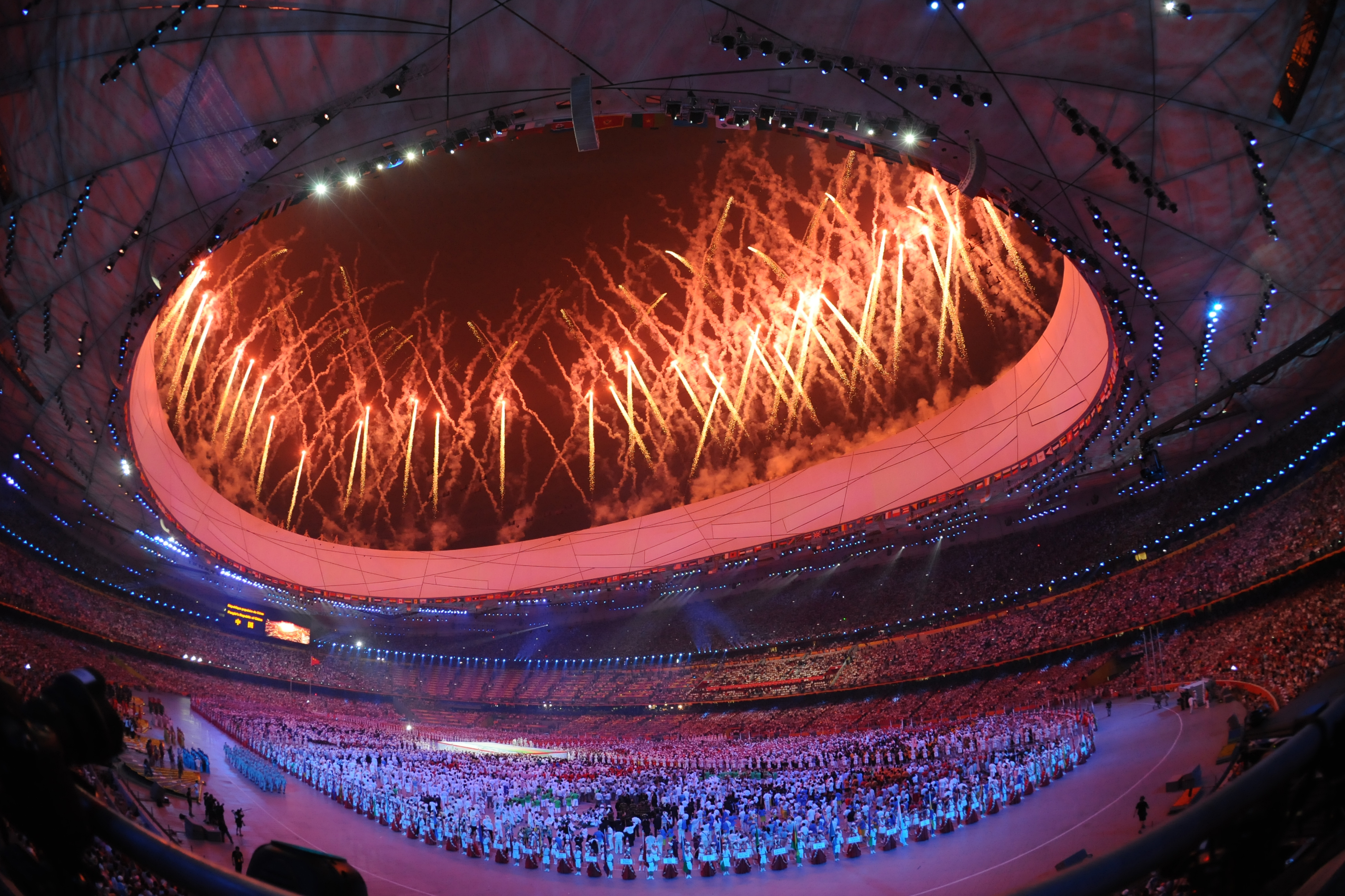 Fireworks, a Chinese invention, kick off the Opening Ceremony of the 29th Olympiad in Beijing, August 8th, 2008.